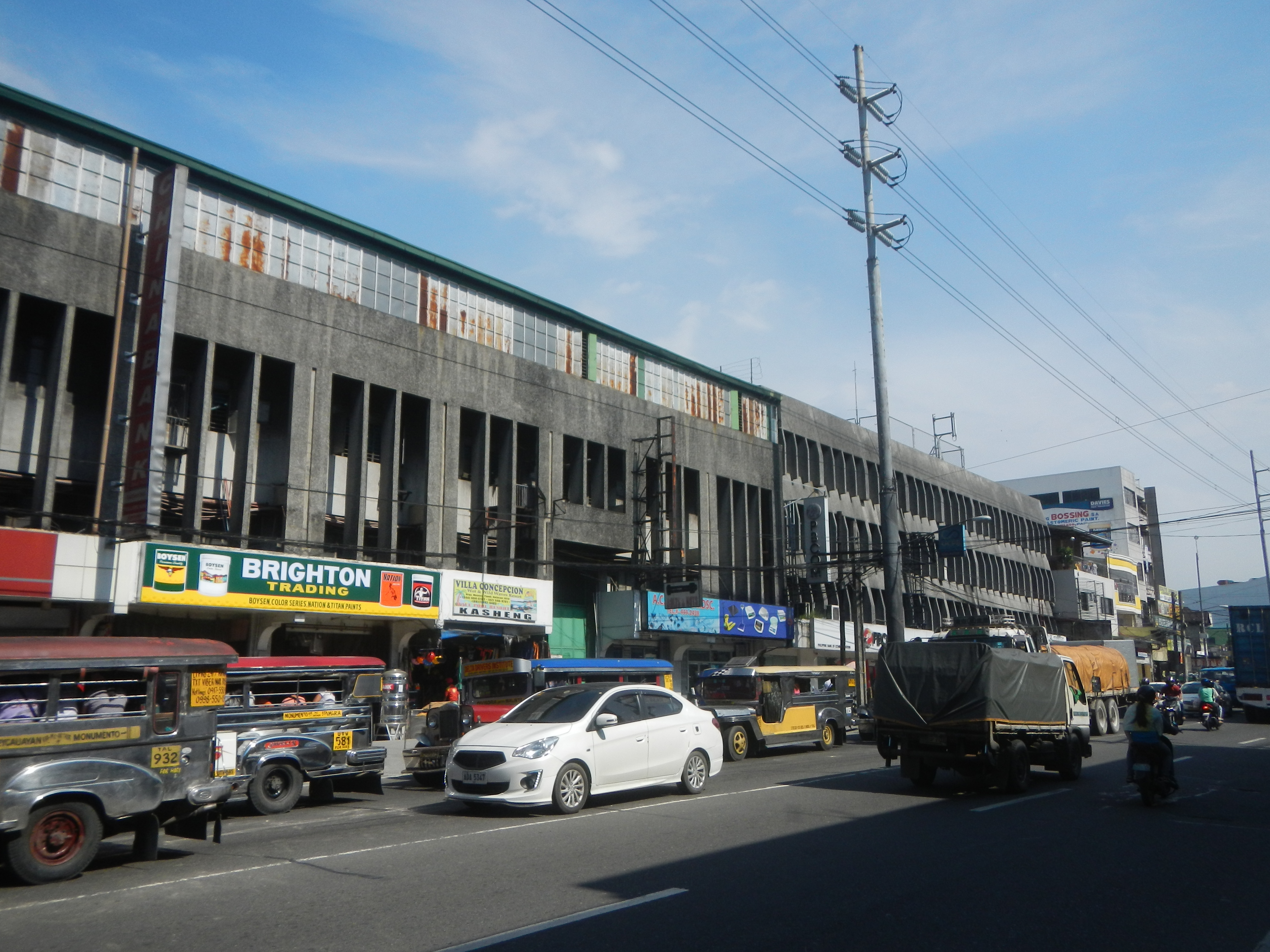 MacArthur Highway Karuhatan, Valenzuela Valenzuela city, Valenzuela, Lists of barangays in Philippine cities and municipalities, List of barangays in Valenzuela Malinta 14°41'17"N 120°57'53"E Karuhatan, Valenzuela beside Marulas (Valenzuela) 14°40'34"N 120°59'3"E beside Potrero, Malabon City by the Tullahan River and Bridge, List of rivers and esteros in Manila MacArthur Highway (Note: Judge Florentino Floro, the owner, to repeat, Donor Florentino Floro of all these photos hereby donate gratuitously, freely and unconditionally all these photos to and for Wikimedia Commons, exclusively, for public use of the public domain, and again without any condition whatsoever).